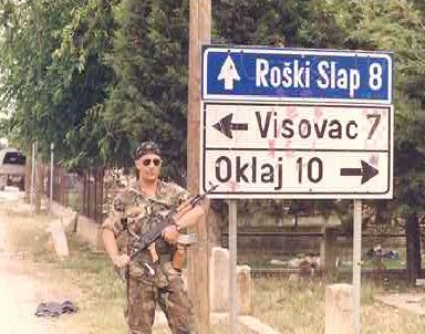 Jack Nico stands in front of a sign in Širitovci.